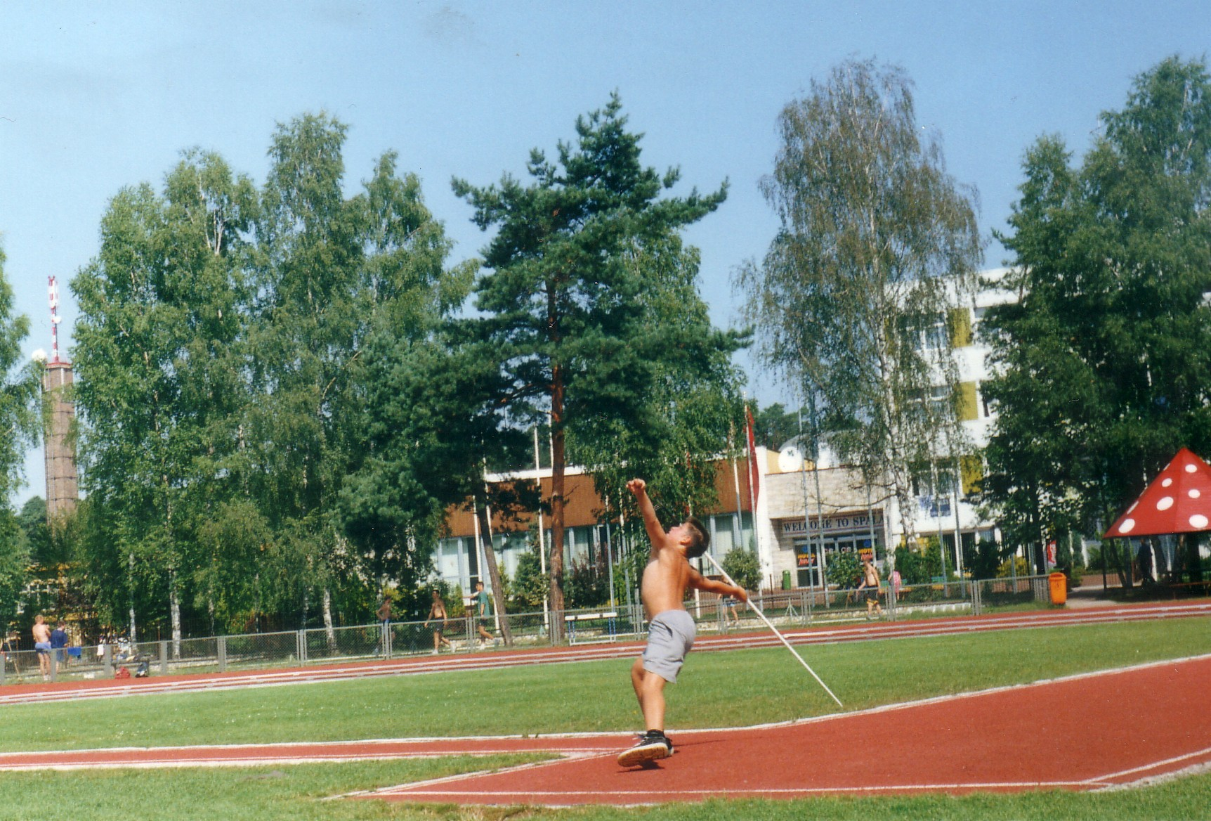 Javelin Throw from pl.wikipedia